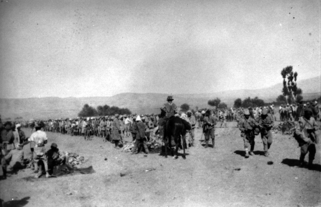 Photograph of prisoners at Kaukab October 1918 Other information copyright expired access unrestricted